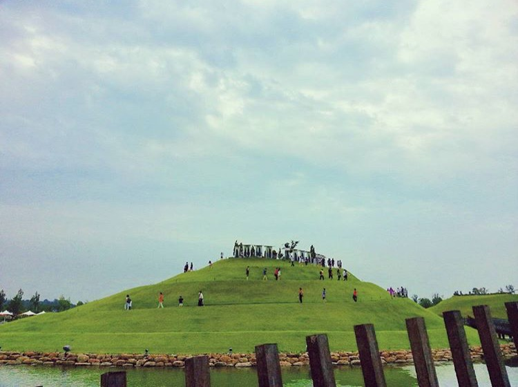 One of the landmarks of the garden. I visited the garden when I was in Korea.